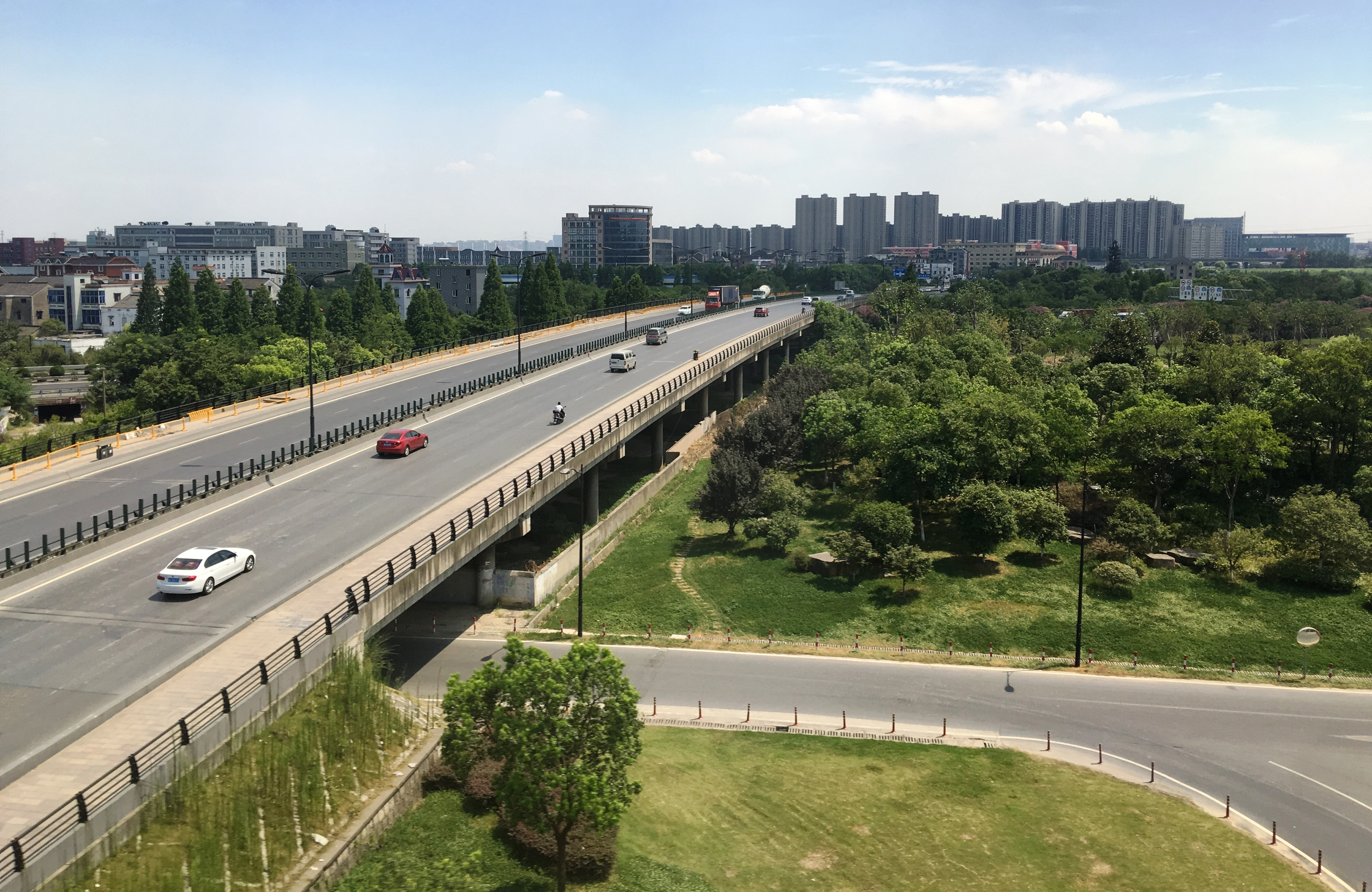 Image from along the S-2 state highway in Yuhang District, in the far northeastern end of Hangzhou prefecture, eastern China.